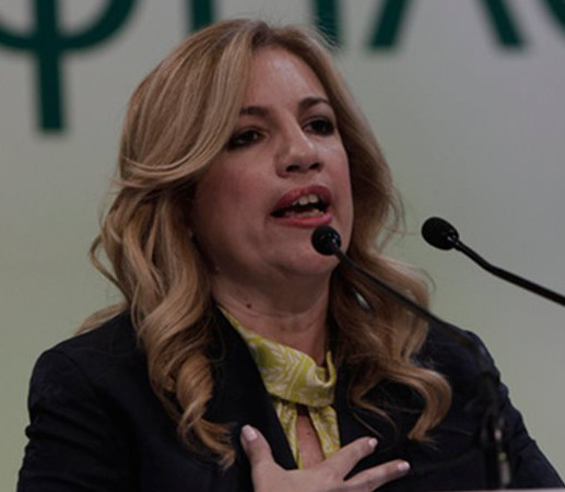 Fofi Gennimata